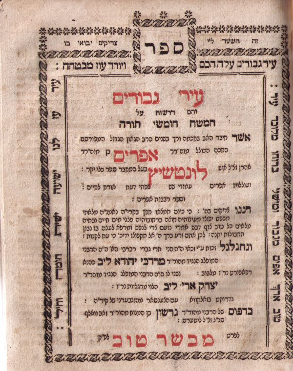 Title page of Ir Giborim by Shlomo Ephraim Luntschitz, published in Zhovkva, 1799